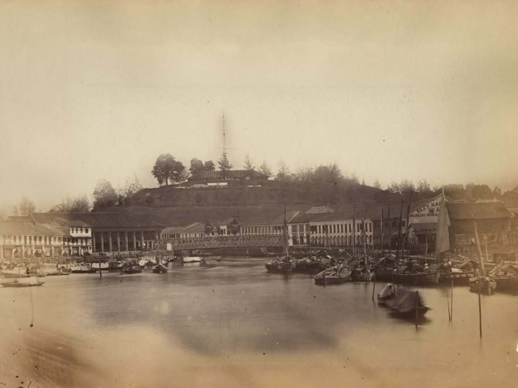 A view of Fort Canning from the Singapore River (CO 1069-484-047).